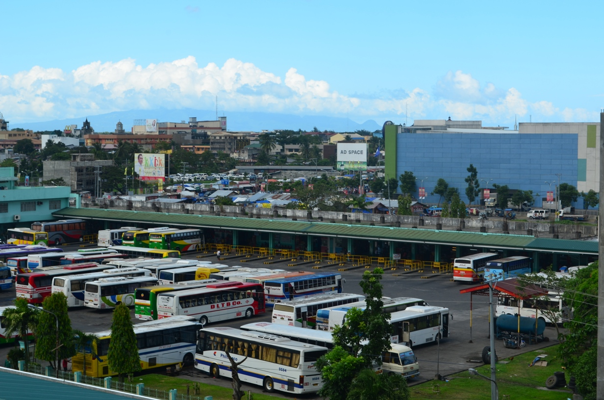 CBD Terminal